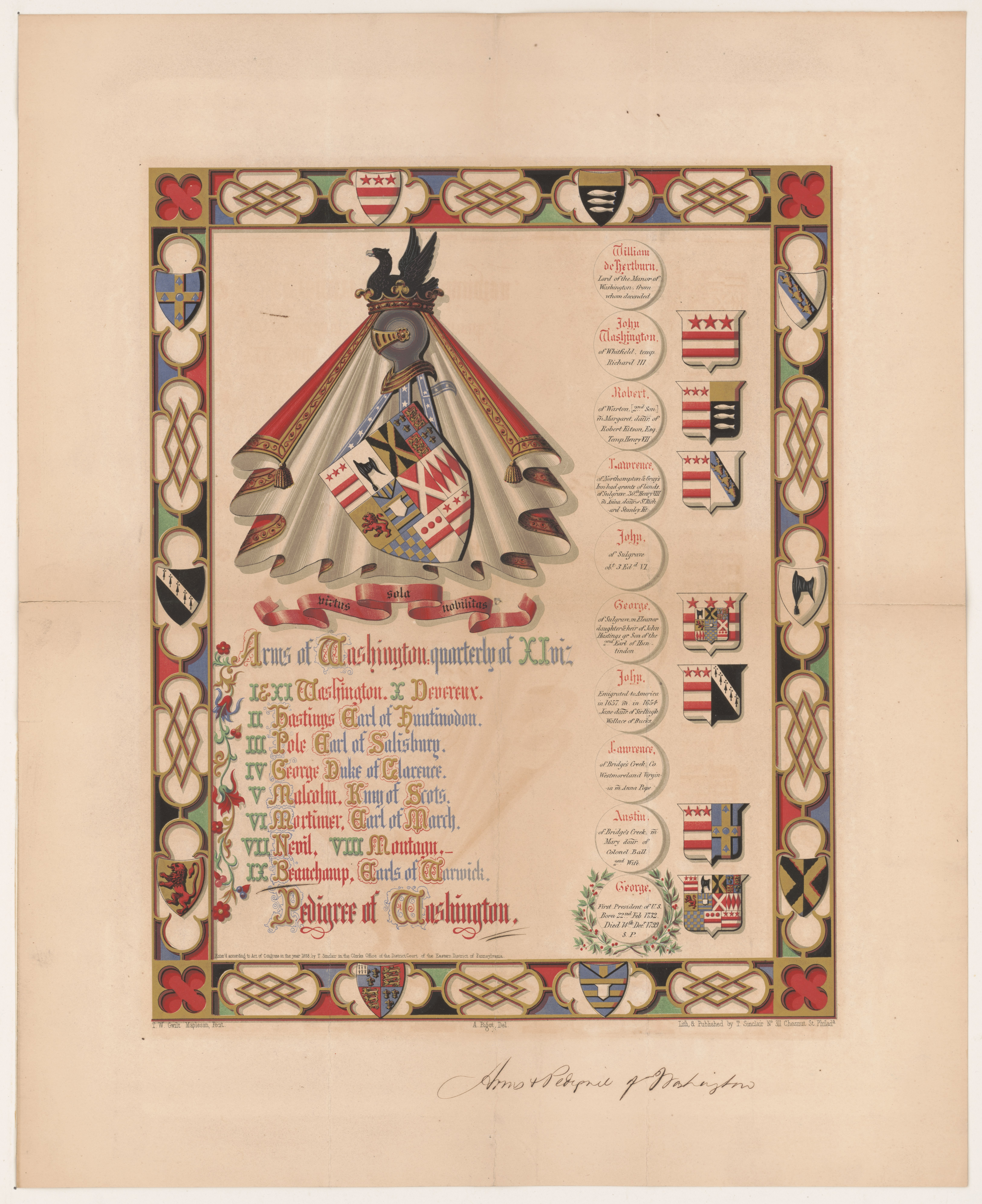 Title: Arms of Washington and pedigree of Washington Physical description: 1 print. Notes: This record contains unverified data from PGA shelflist card.; Associated name on shelflist card: Sinclair, T.; Copyright no. illegible.